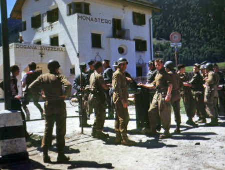 A group of approximately ten Tenth Mountain Division soldiers standing at the Swiss border. Across the border is a white building with the words "Monastero" and "Dogana Svizzera" painted on it. Taken while the photographer was serving in the 10th Mountain Division during the Italian Campaign.